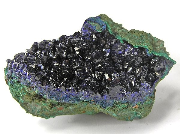 Azurite, Malachite Locality: Liufengshan Mine, Anqing-Guichi Mining District, Guichi District, Chizhou Prefecture, Anhui Province, China (Locality at ) Size: 5.9 x 3.4 x 2.7 cm. Deep blue, VERY lustrous and sparkly crystals of azurite in a shallow vug, on a matrix of azurite, from finds last year in China.